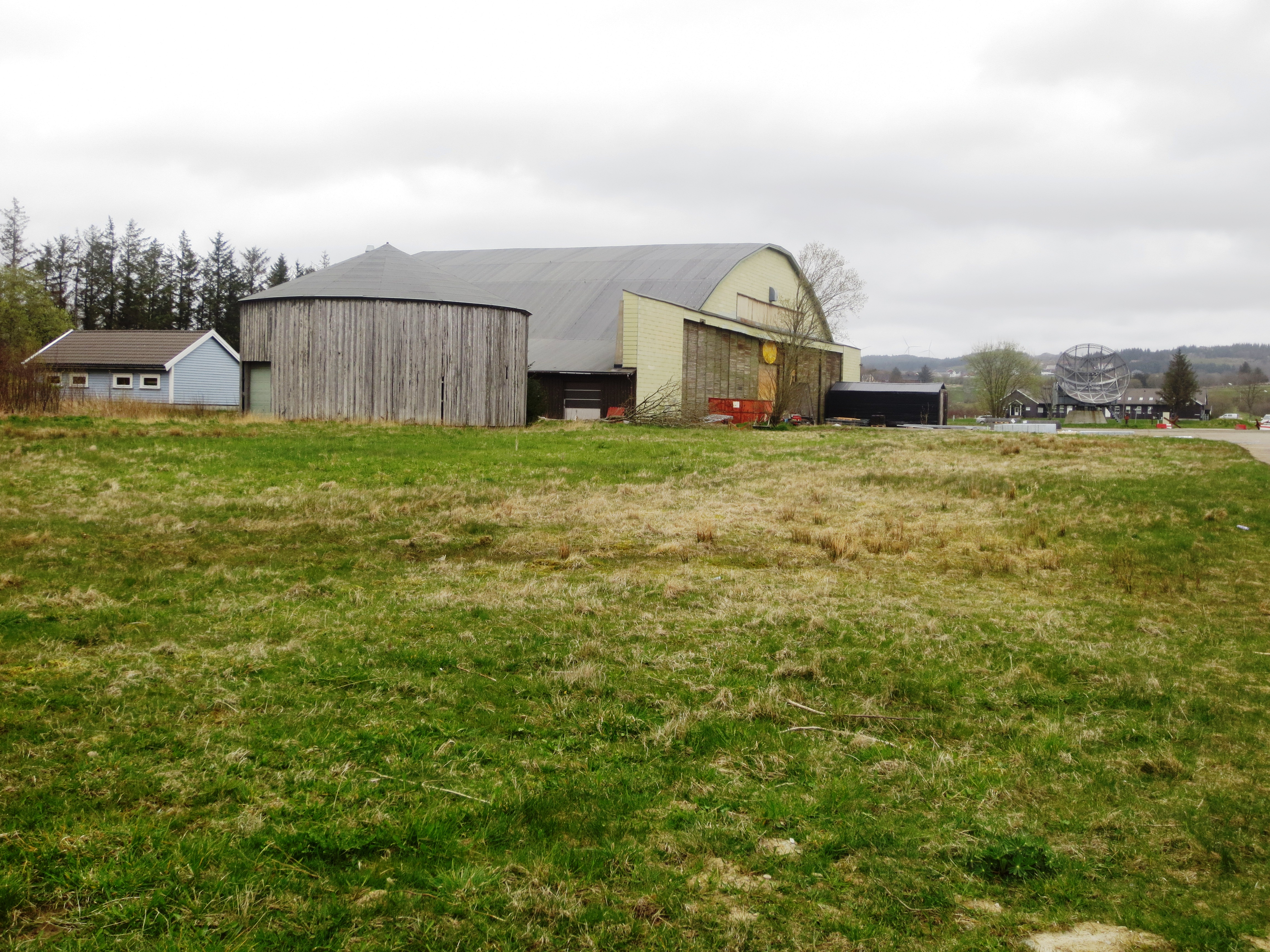 The former Lista flystasjon (Lista Air Force Station) in the municipality of Farsund, Norway